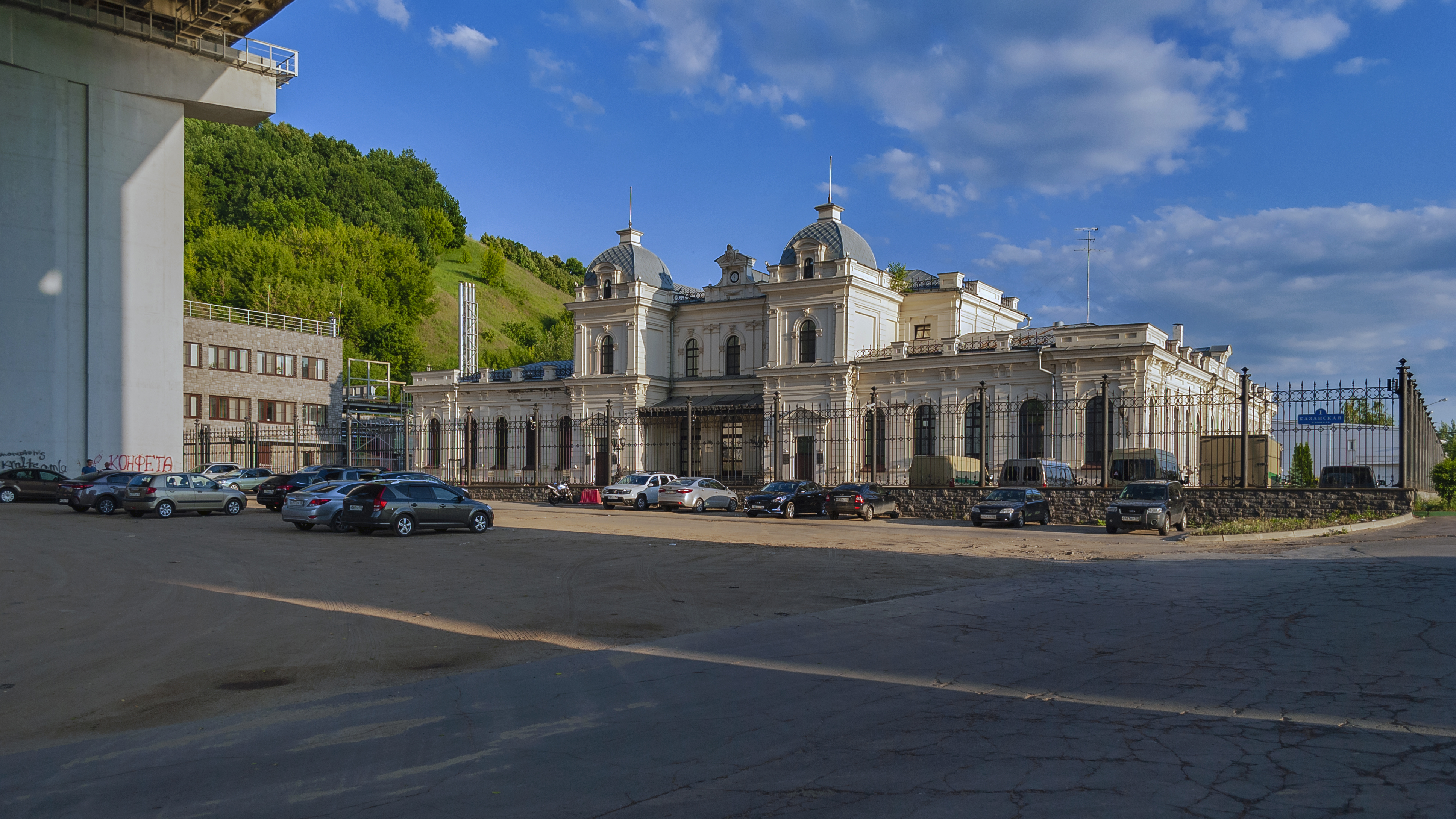 Novakard company office - manufacturer of transport cards of Nizhny Novgorod. In the past - Romodanovsky (Kazansky) railway station.